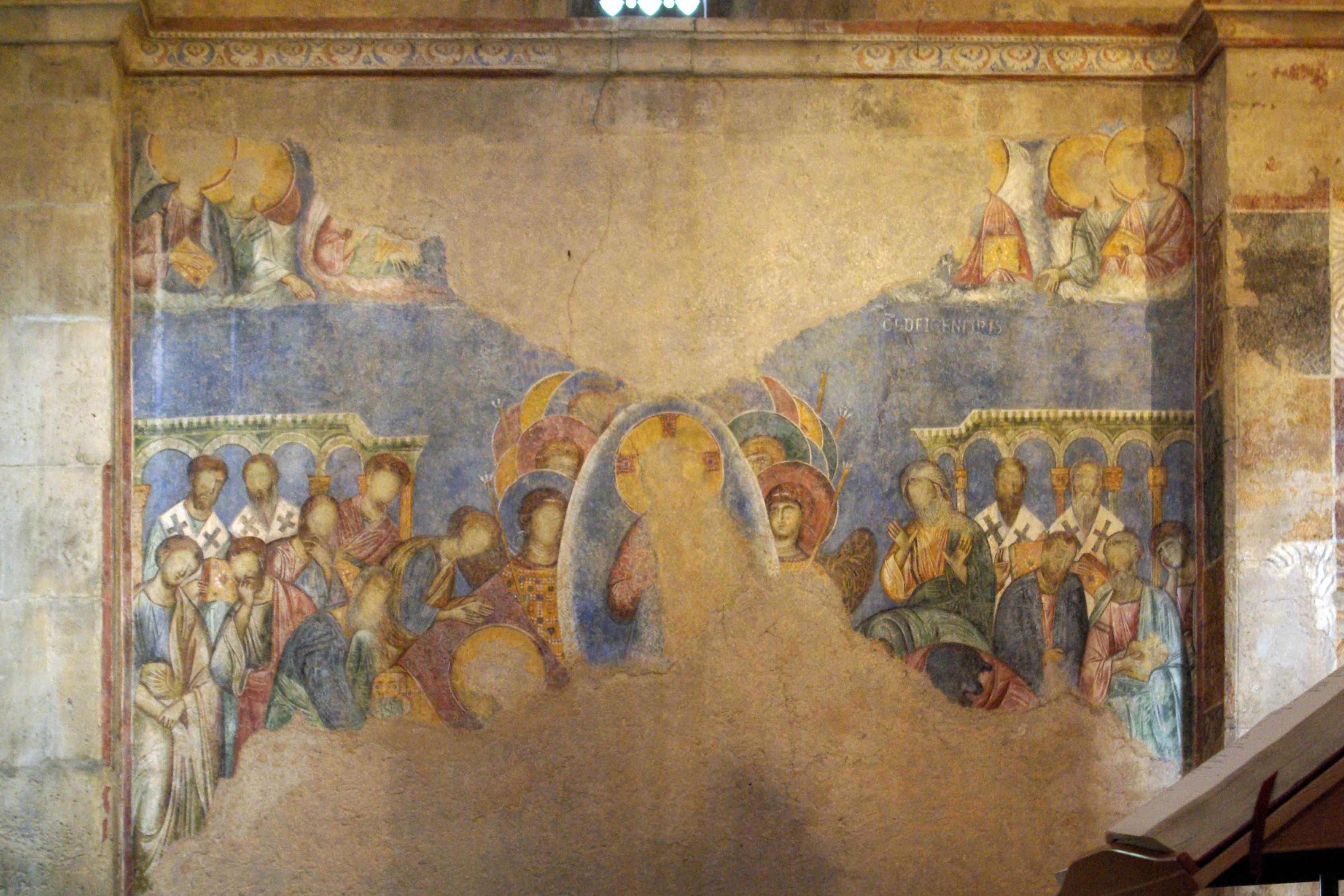 Israel, Abu Ghosh